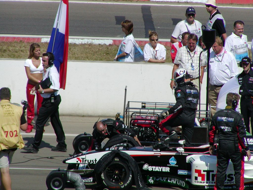 Minardi at the start grid at the 2003 Hungarian Grand Prix.